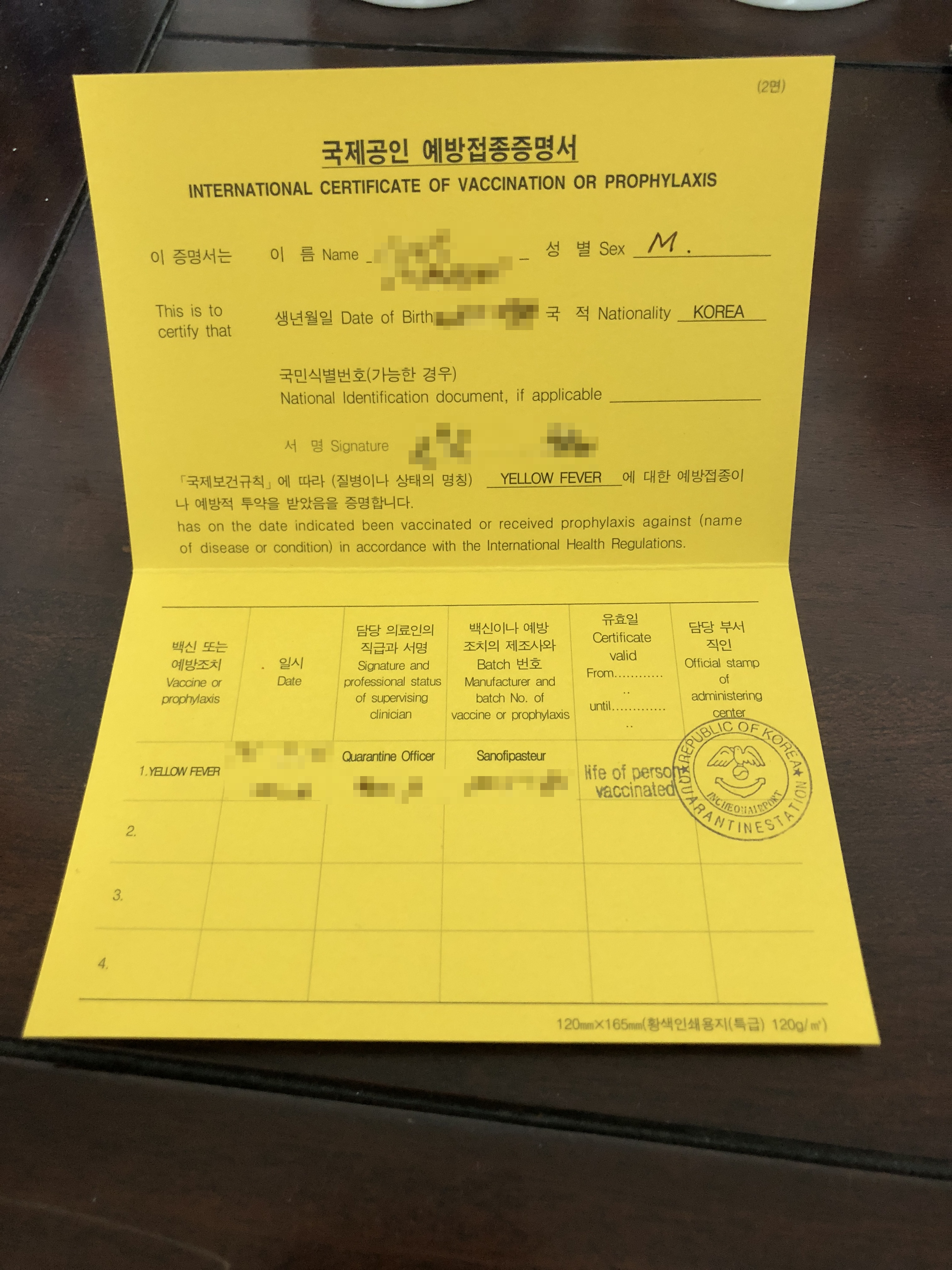 International Certification of Vaccination, issued by Republic of Korea Ministry of Health and Welfare.